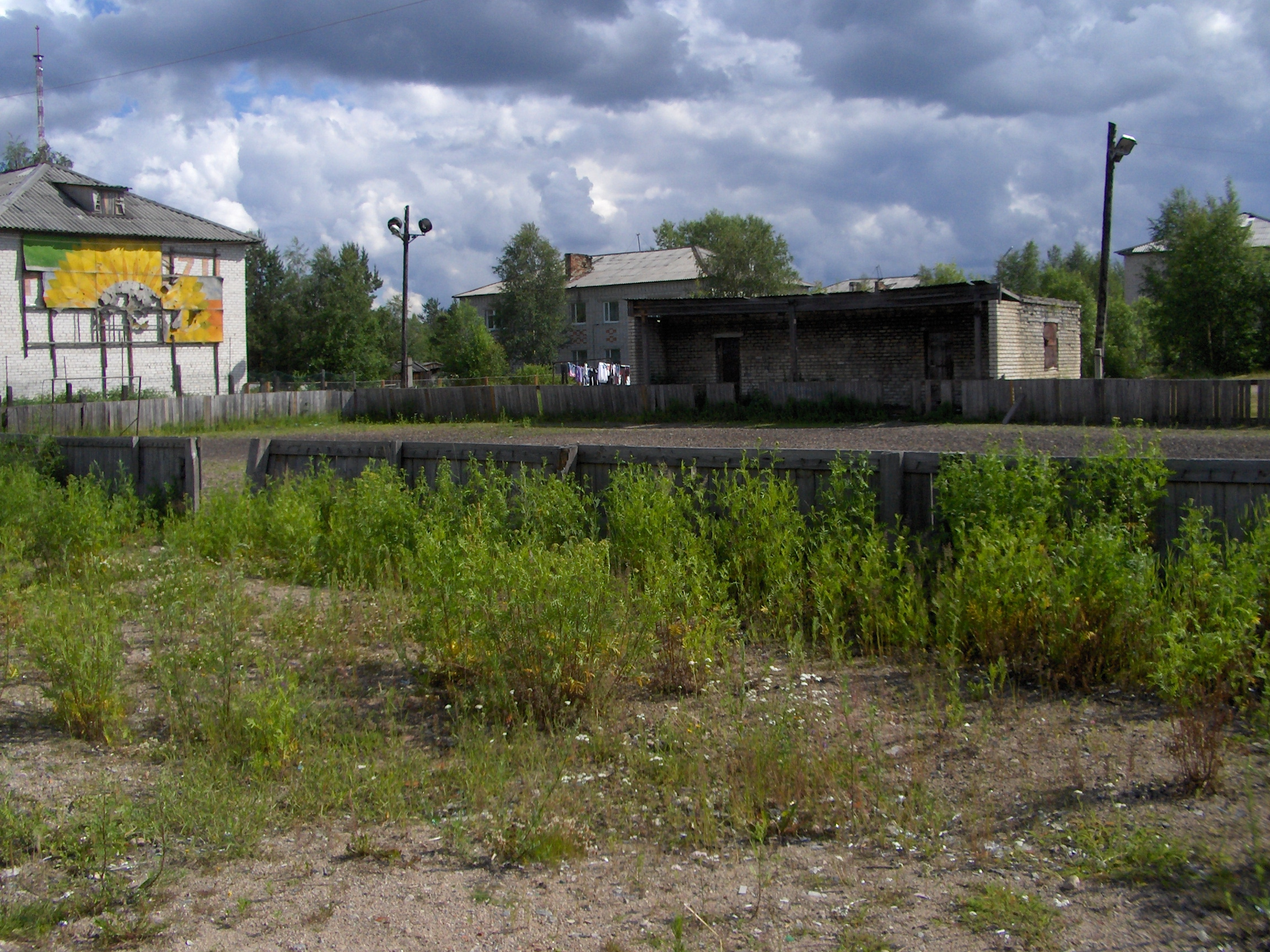 Ice Hockey rink, Muyezerskii, Republic of Karelia, Russia